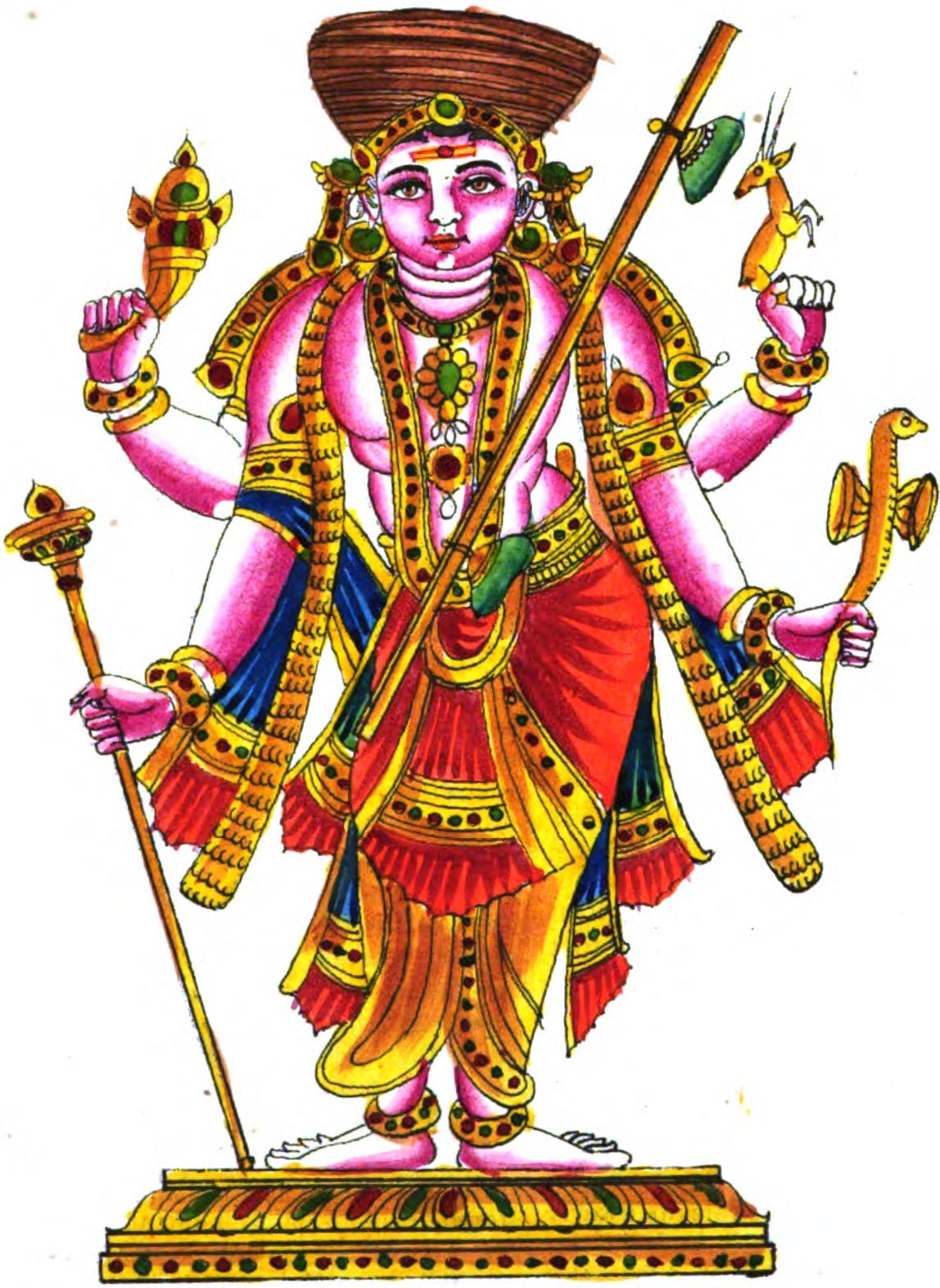 Kankalamurti